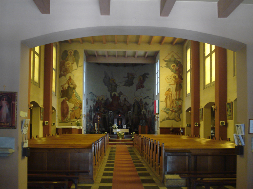 Roman Carholic church interior Selyemrét, Miskolc, Hungary